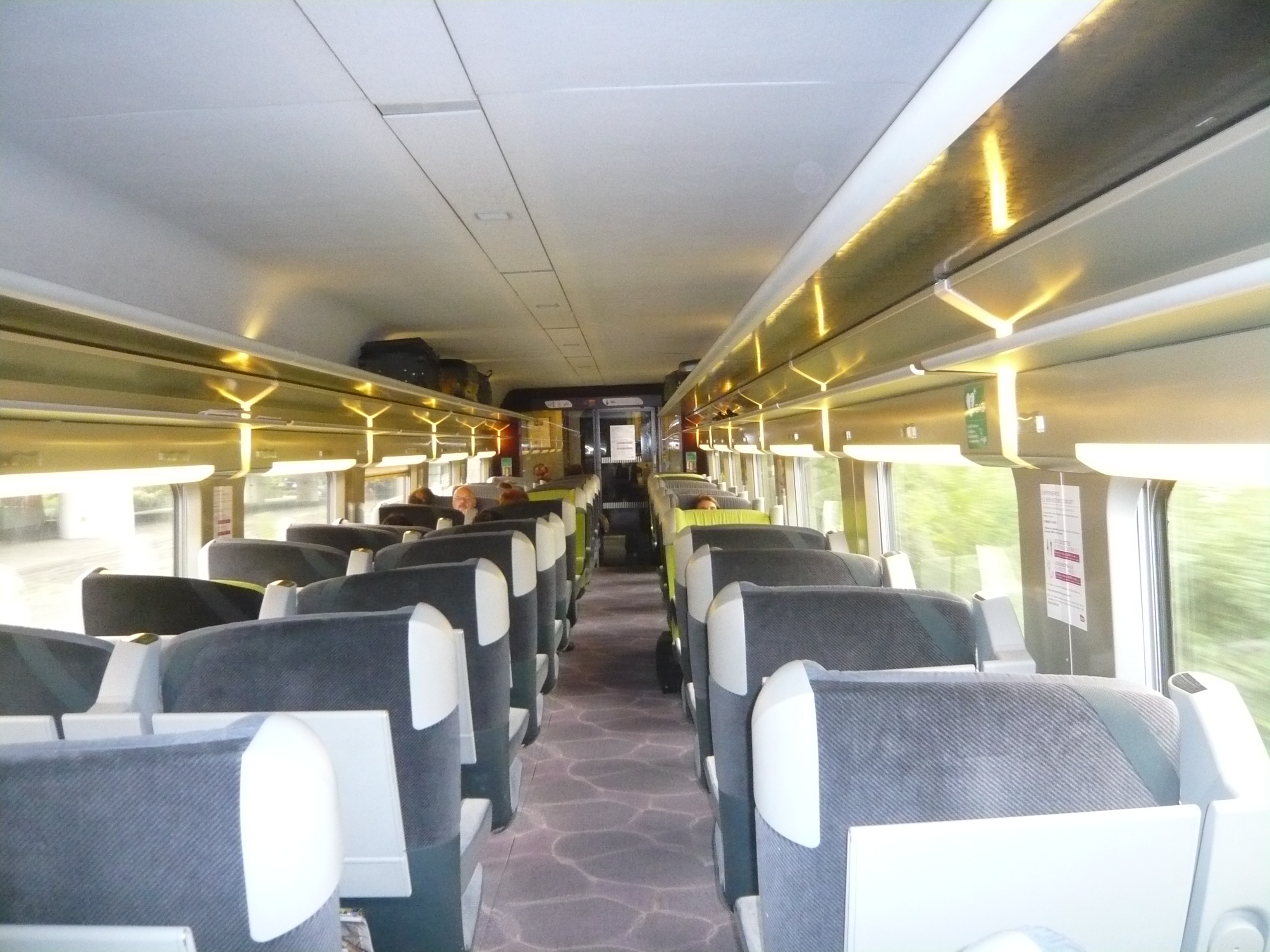 The first class of an TGV POS